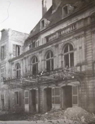 apres les bombardements de 1944